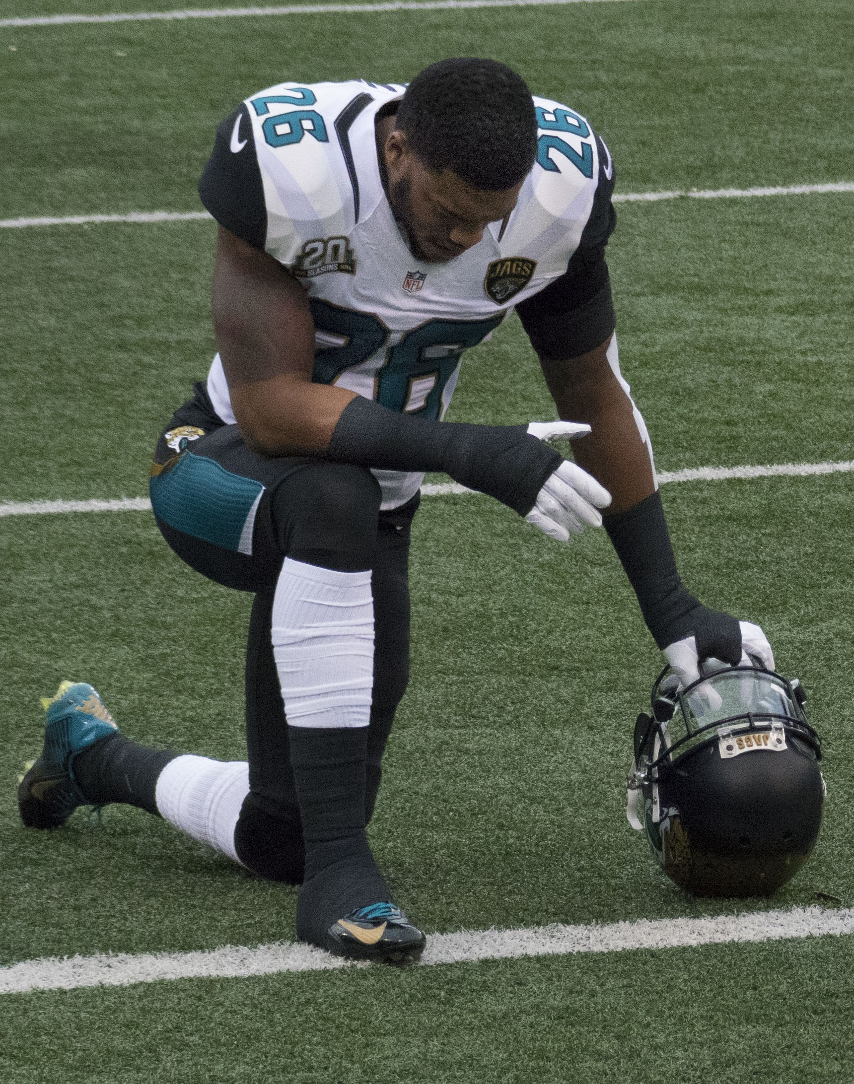 Jaguars at Ravens 12/14/14